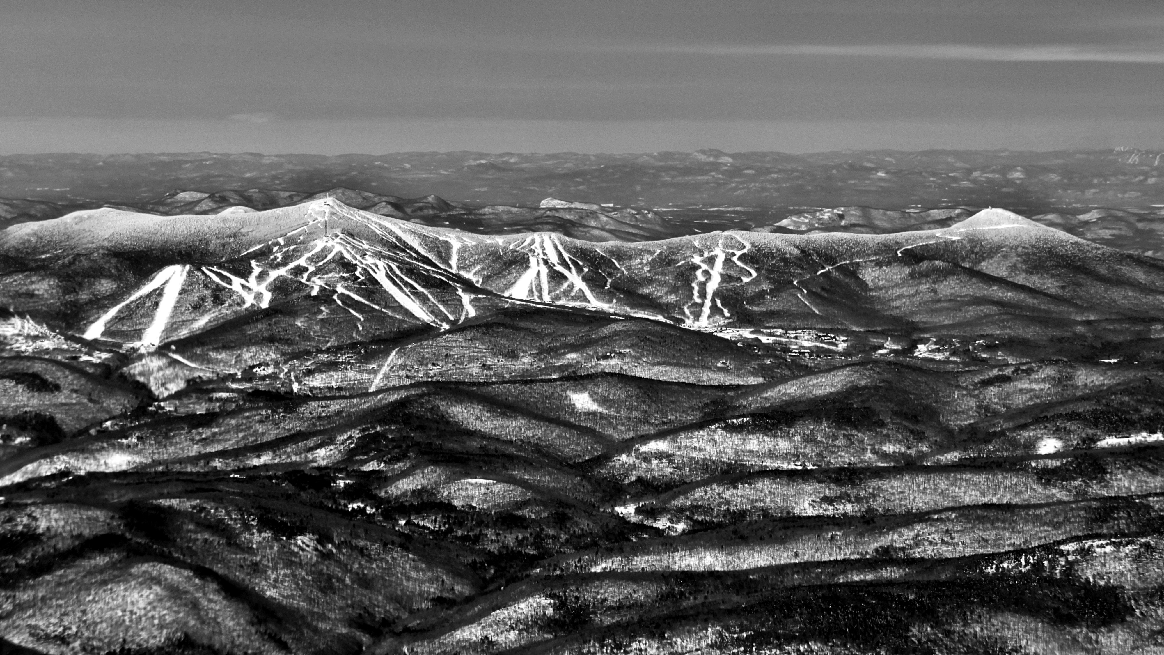 Aerial Photo from 6000 feet looking West at Killington Resort in Vermont.